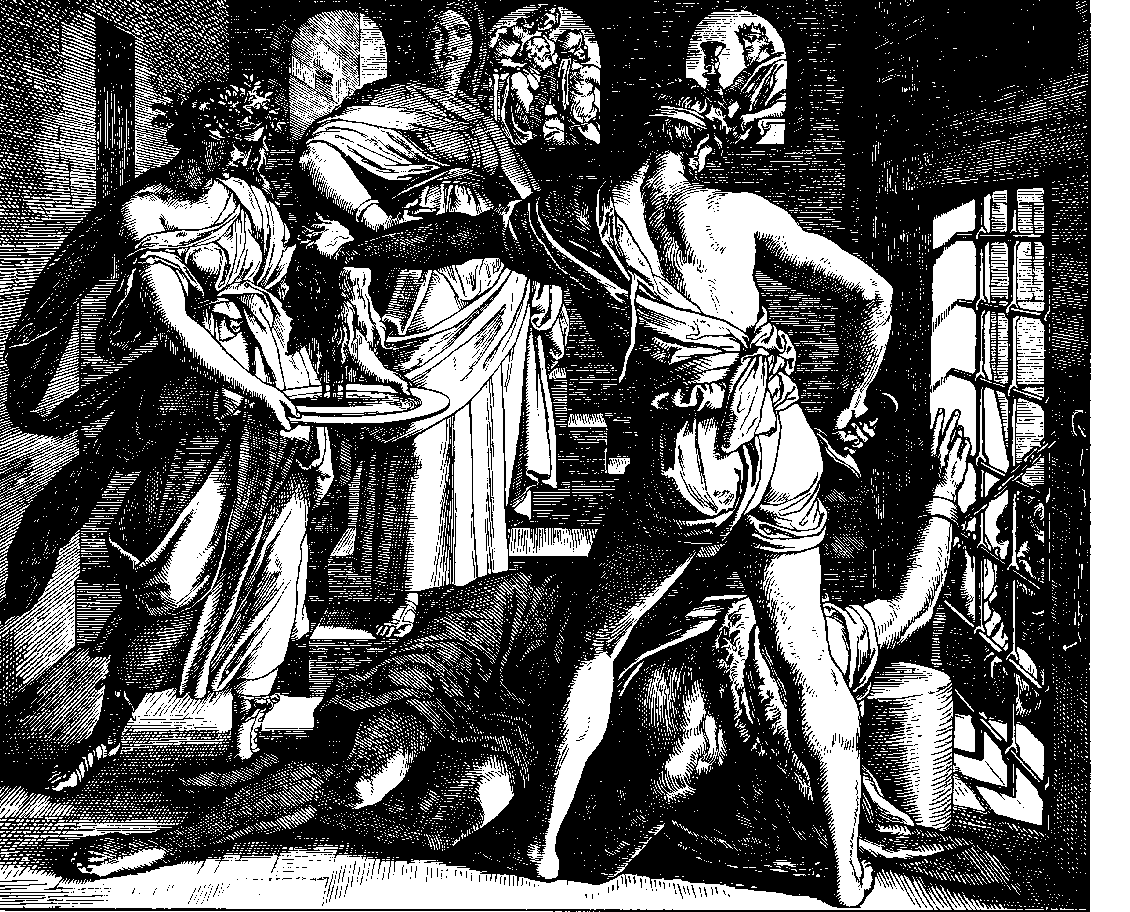 Woodcut for "Die Bibel in Bildern", 1860.